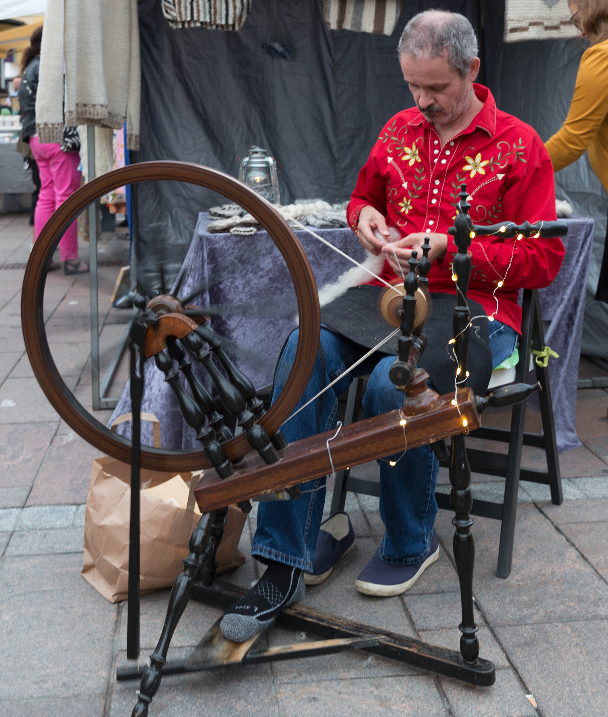 Spinning wheel in Helsinki, Finland